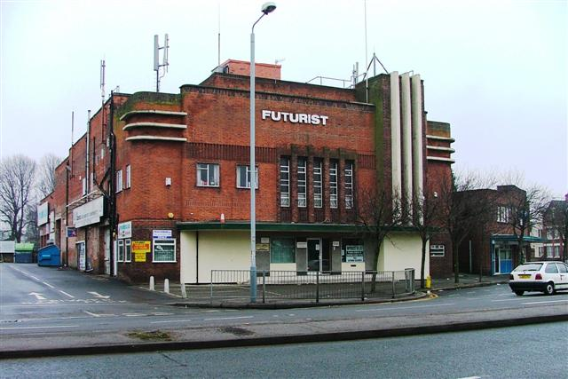 Former Futurist Cinema. Since closing as a cinema this building has had a variety of uses but now stands unused. What is to become of it? The cinema opened on July 26, 1937 and seated 1,294 including 220 in the balcony. It closed in March 1976 but reopened its balcony as a trial later that year. This was short lived and the final screening was the Sound of Music on August 13, 1977.